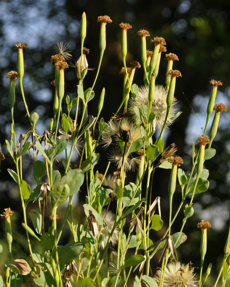 Porophyllum ruderale, flower heads. Darmaga, Bogor, West Java.